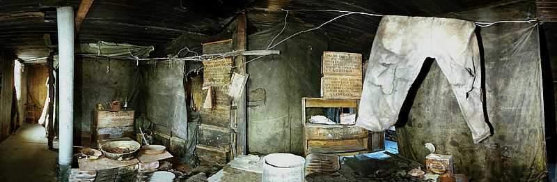 Inside the Discovery Hut